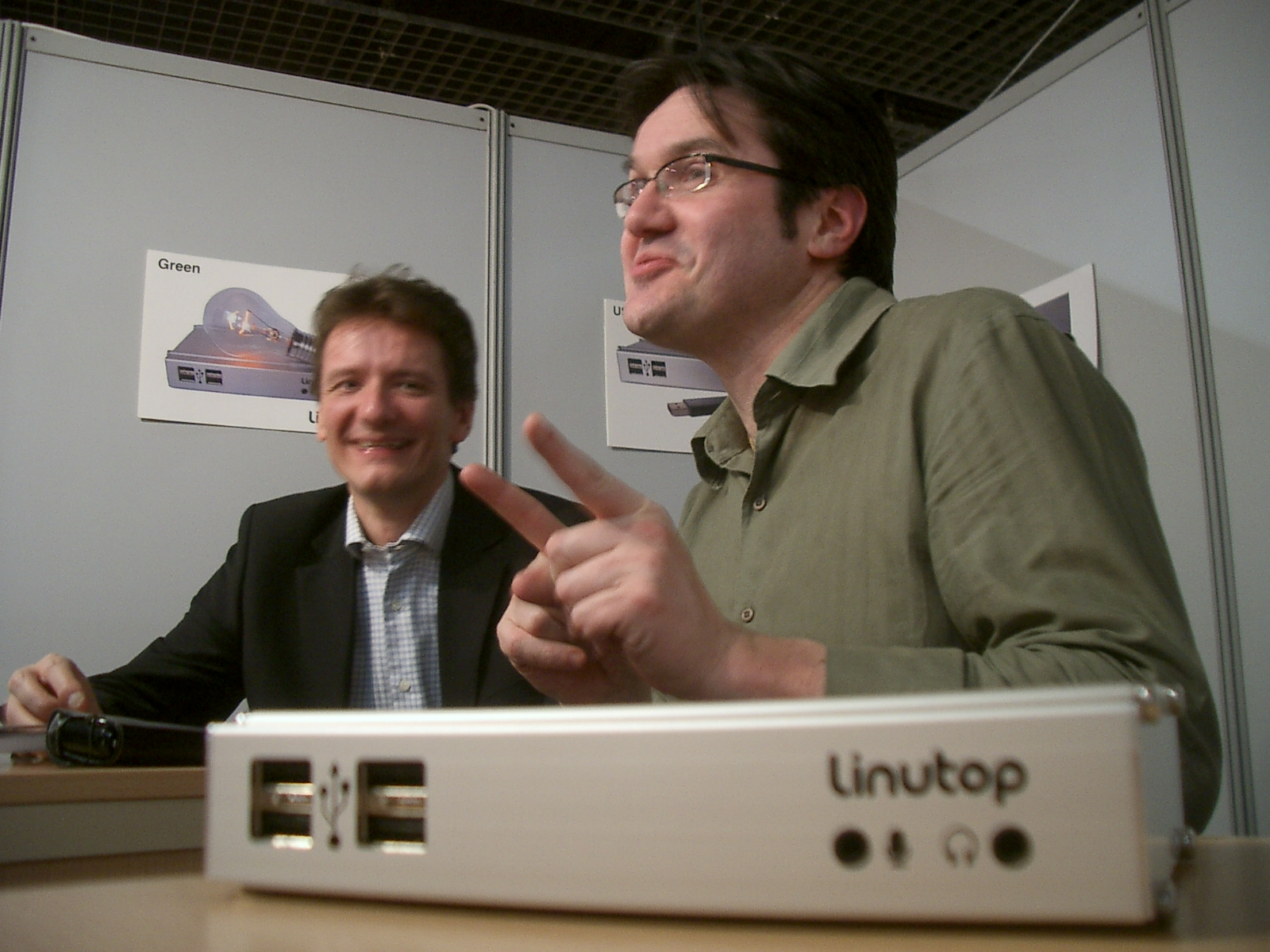 First Presentation of Linutop at Solutions Linux in Paris. Frédéric Baille and Laurent Bervas, founders of the company.